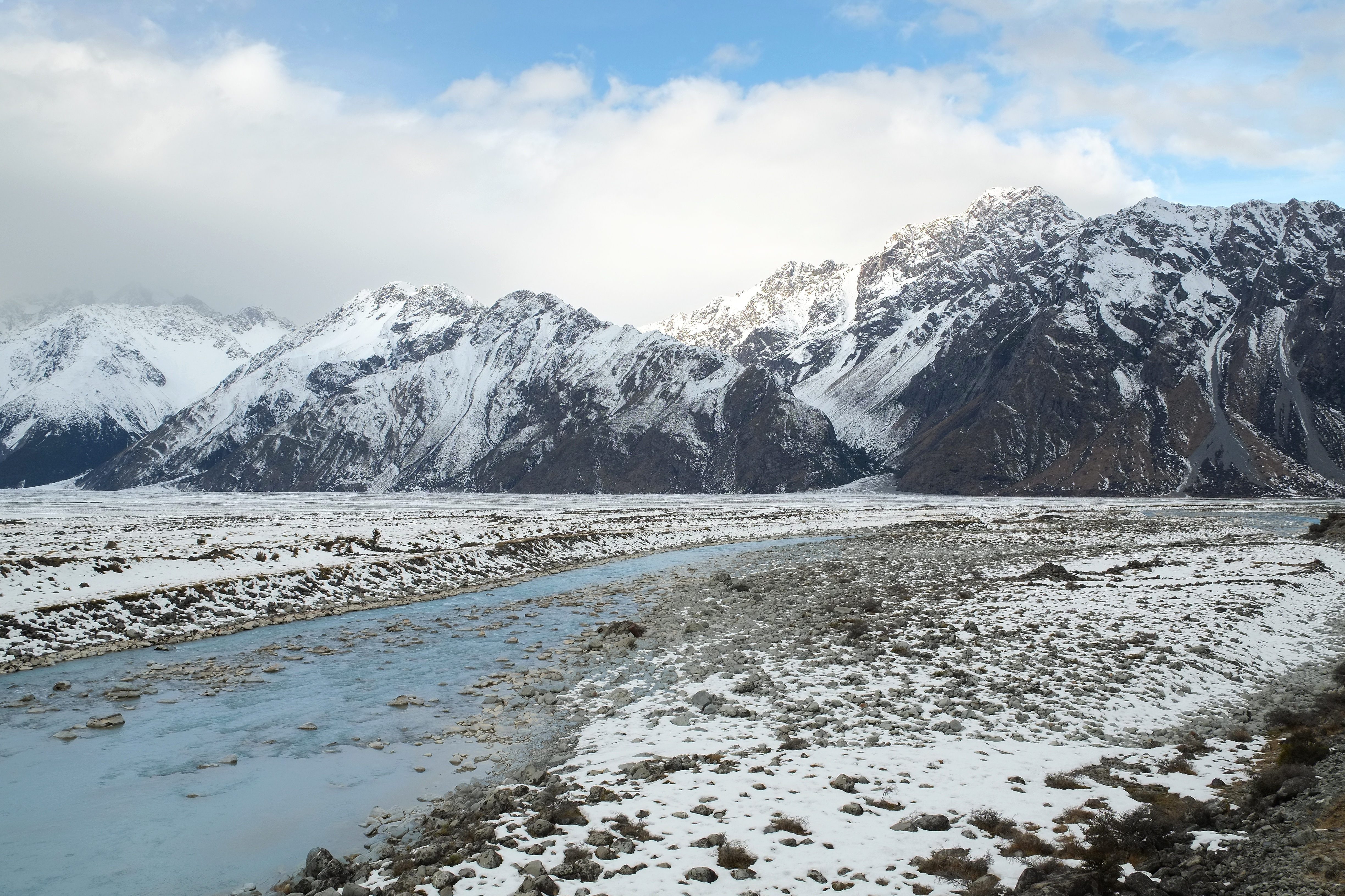 Hooker River through snow-covered Tasman Valley, with Burnett Mountains in the background